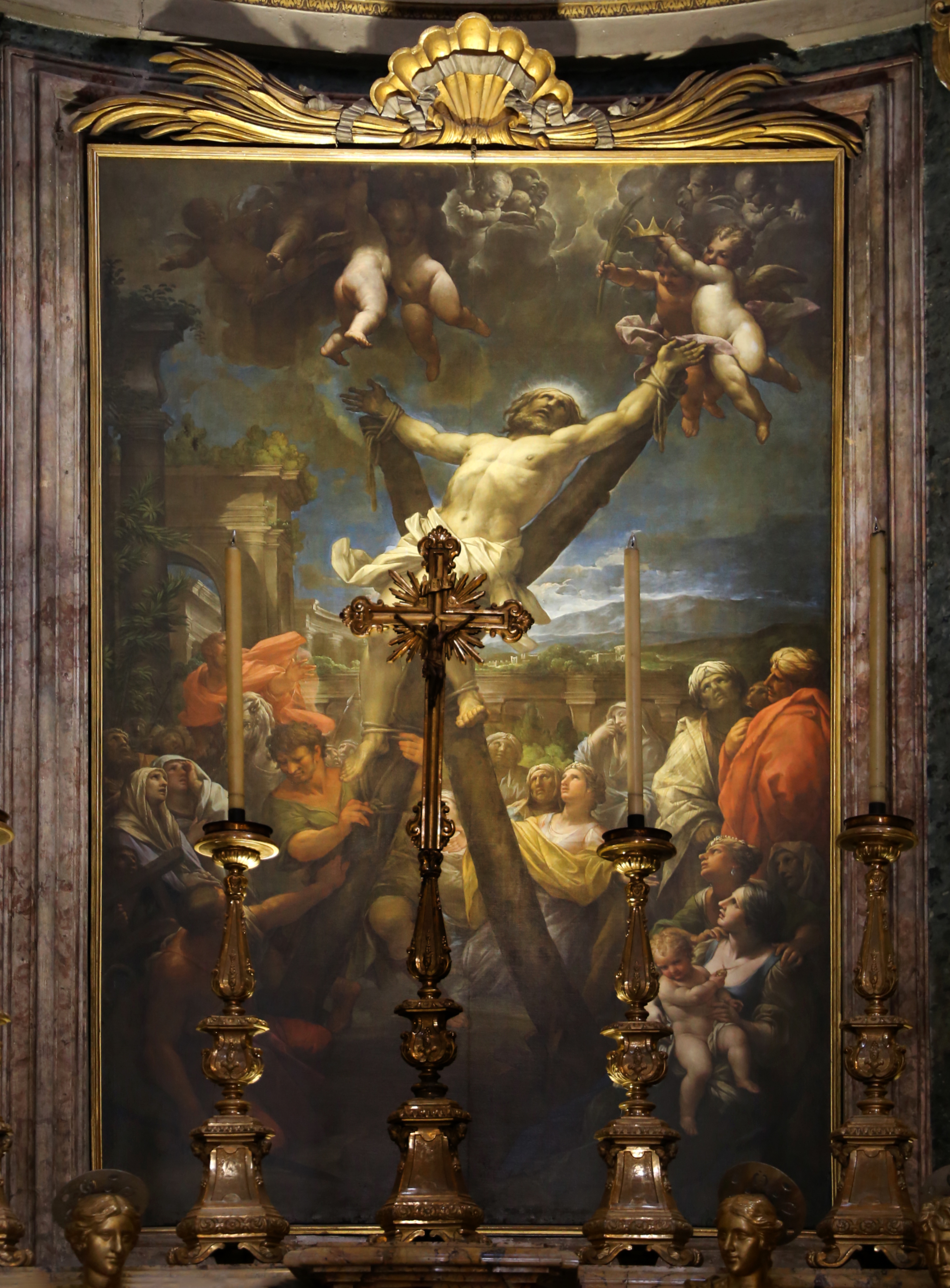 Sant'Andrea delle Fratte - Interior